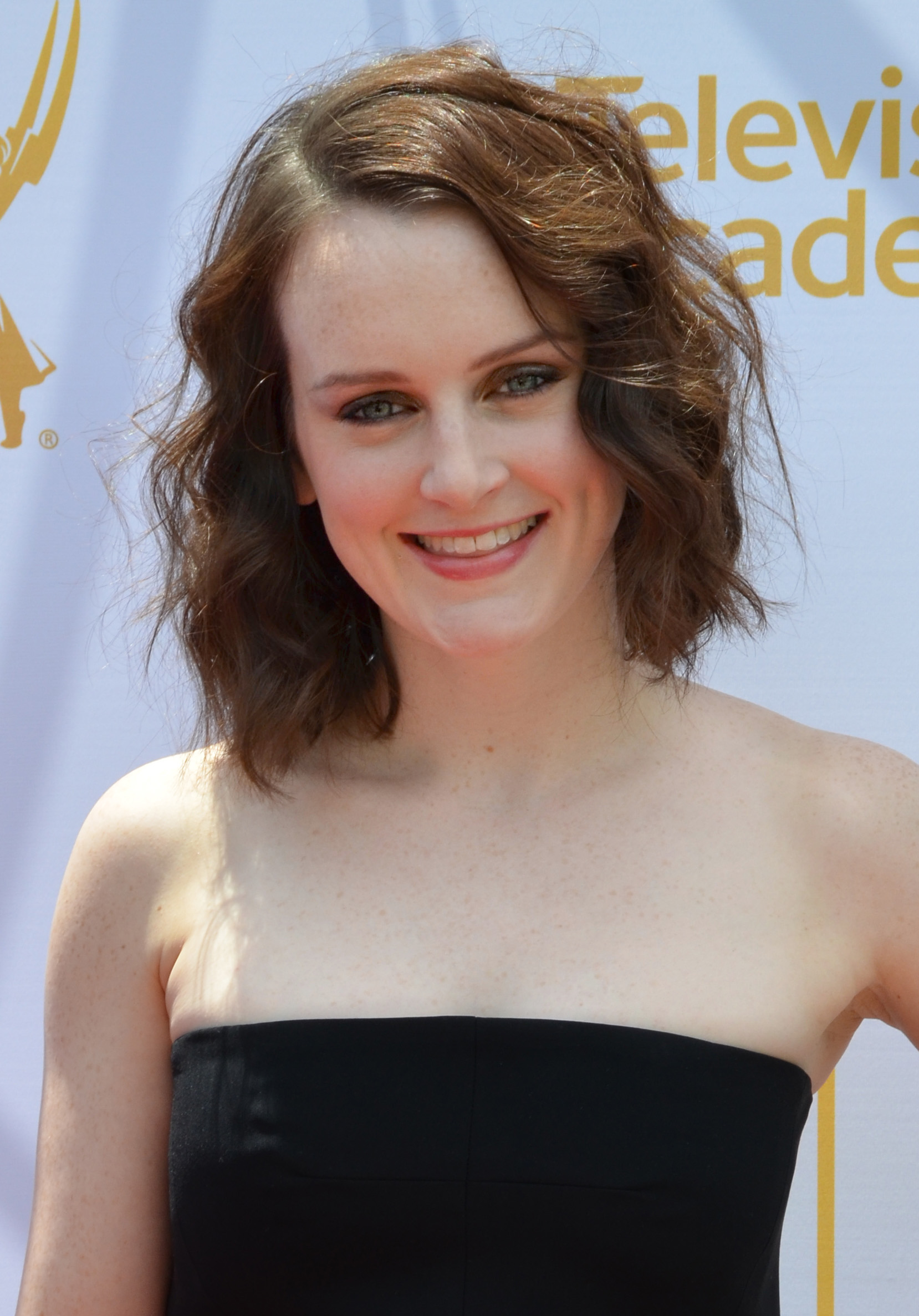 The Television Academy Hosts An Afternoon of Tea, Scones and Chatting with Downton Abbey Cast and Creators at Paramount Studios Saturday afternoon with the creative team and cast members of Downton Abbey at Paramount Studios for a behind-the-scenes look at this Primetime Emmy-winning PBS drama created by Julian Fellowes and co-produced by Carnival Films and Masterpiece.